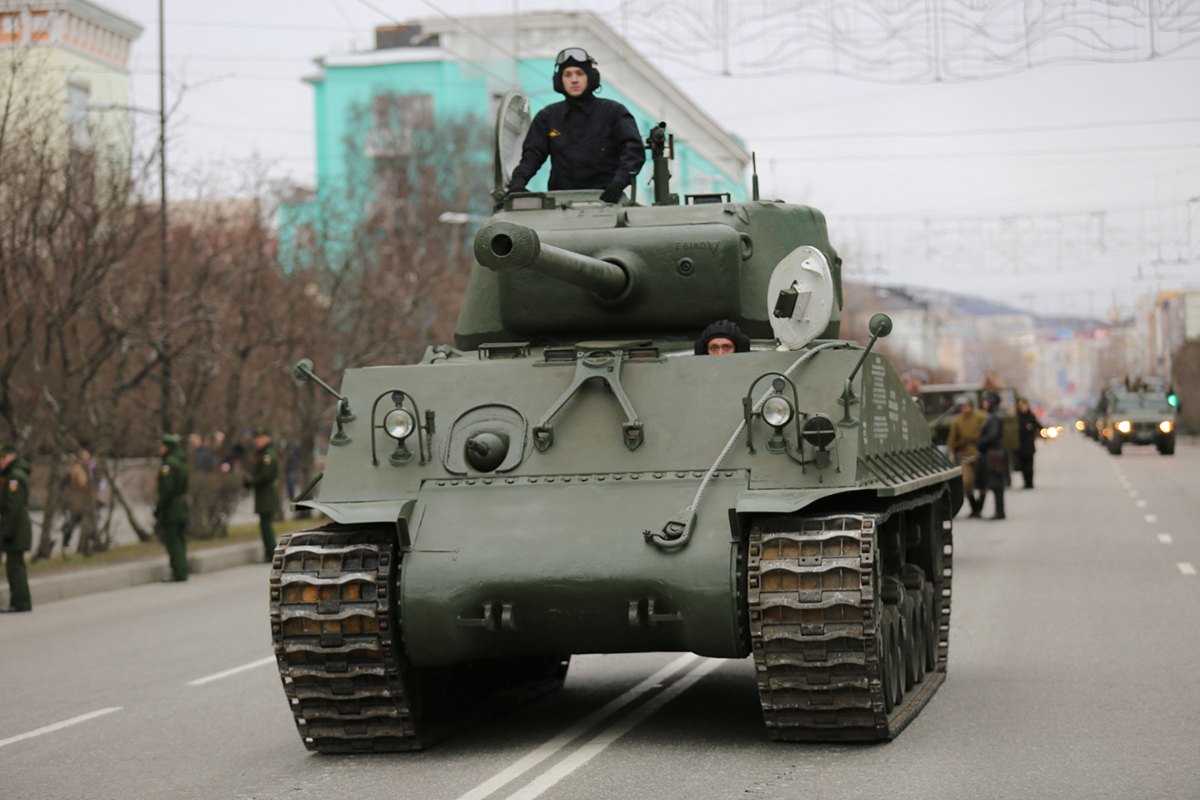 M4A2 Sherman. General rehearsal of the military parade in Murmansk.